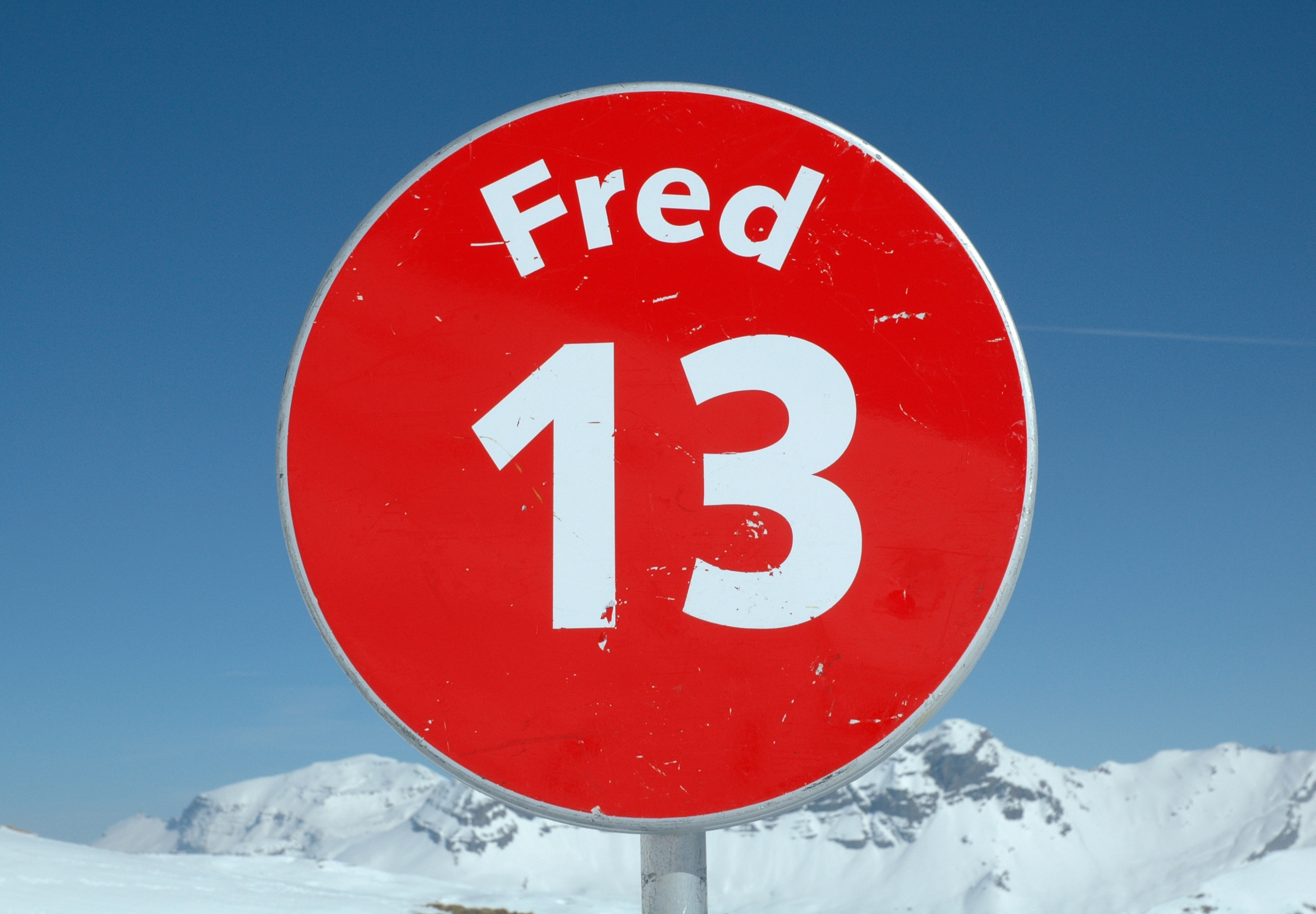 Sign at the side of the ski piste Fred in Flaine, France